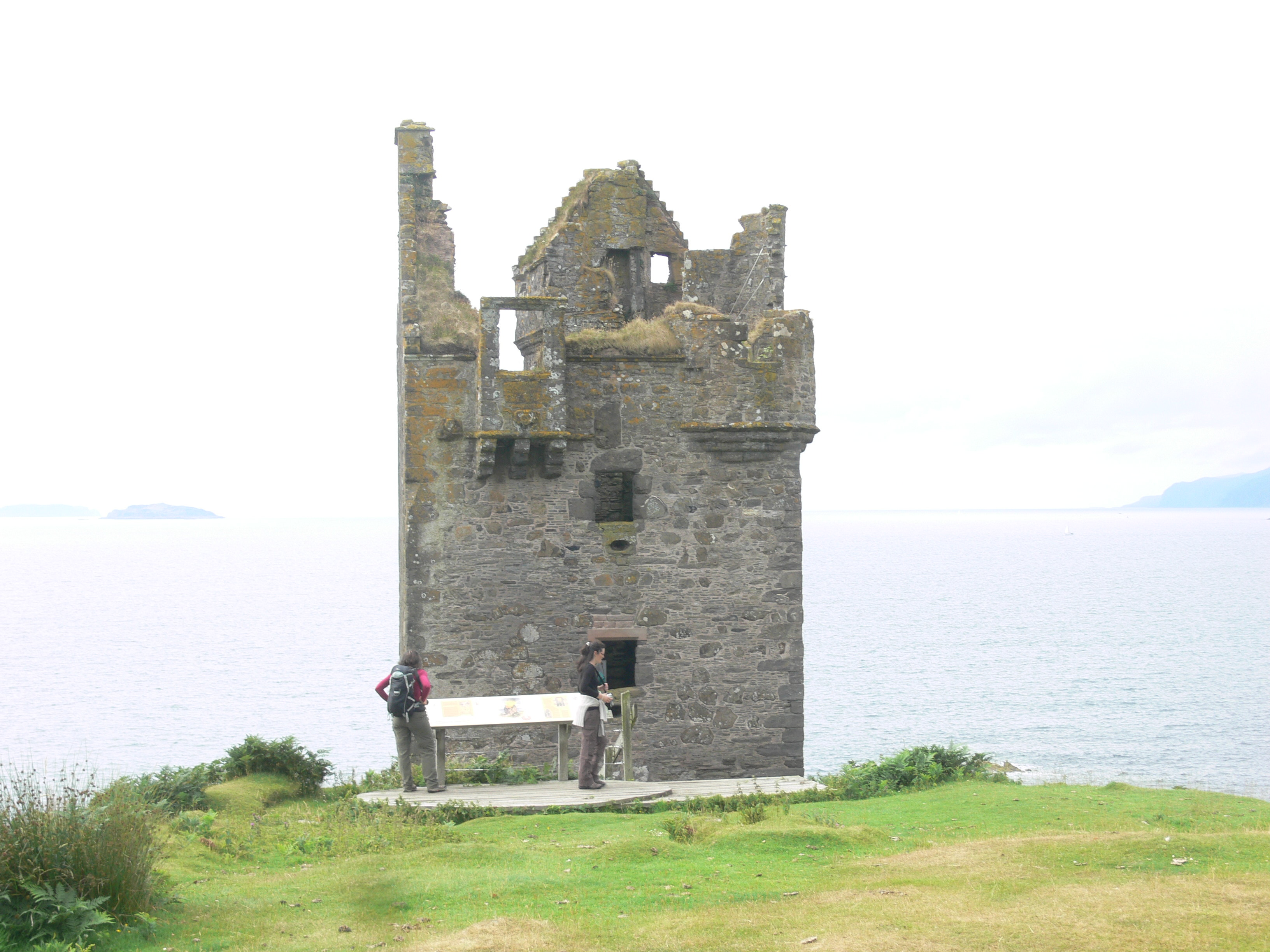 Gylen Castle